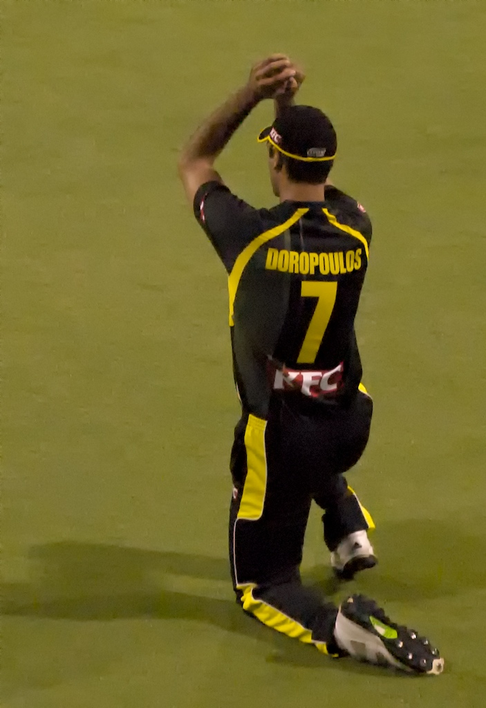 Theo Doropaulos at KFC Twenty20 BigBash - WA v VIC, 10 January 2010, WACA Ground